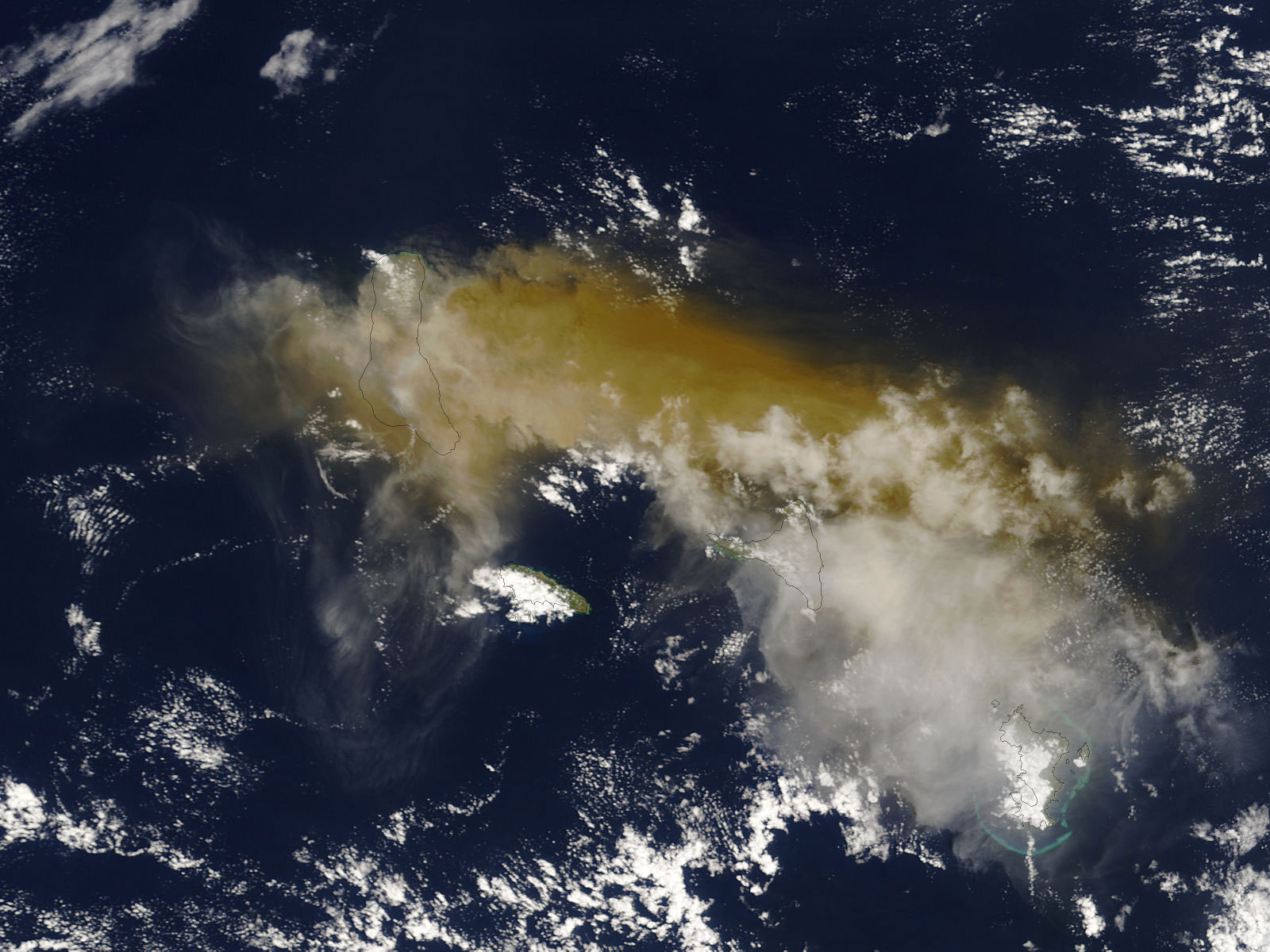 Satellite image of volcanic ash drifting from Mount Karthala. Mt. Karthala is in the upper left and the island is completely obscured by ash, which drifts from there in an easterly direction.